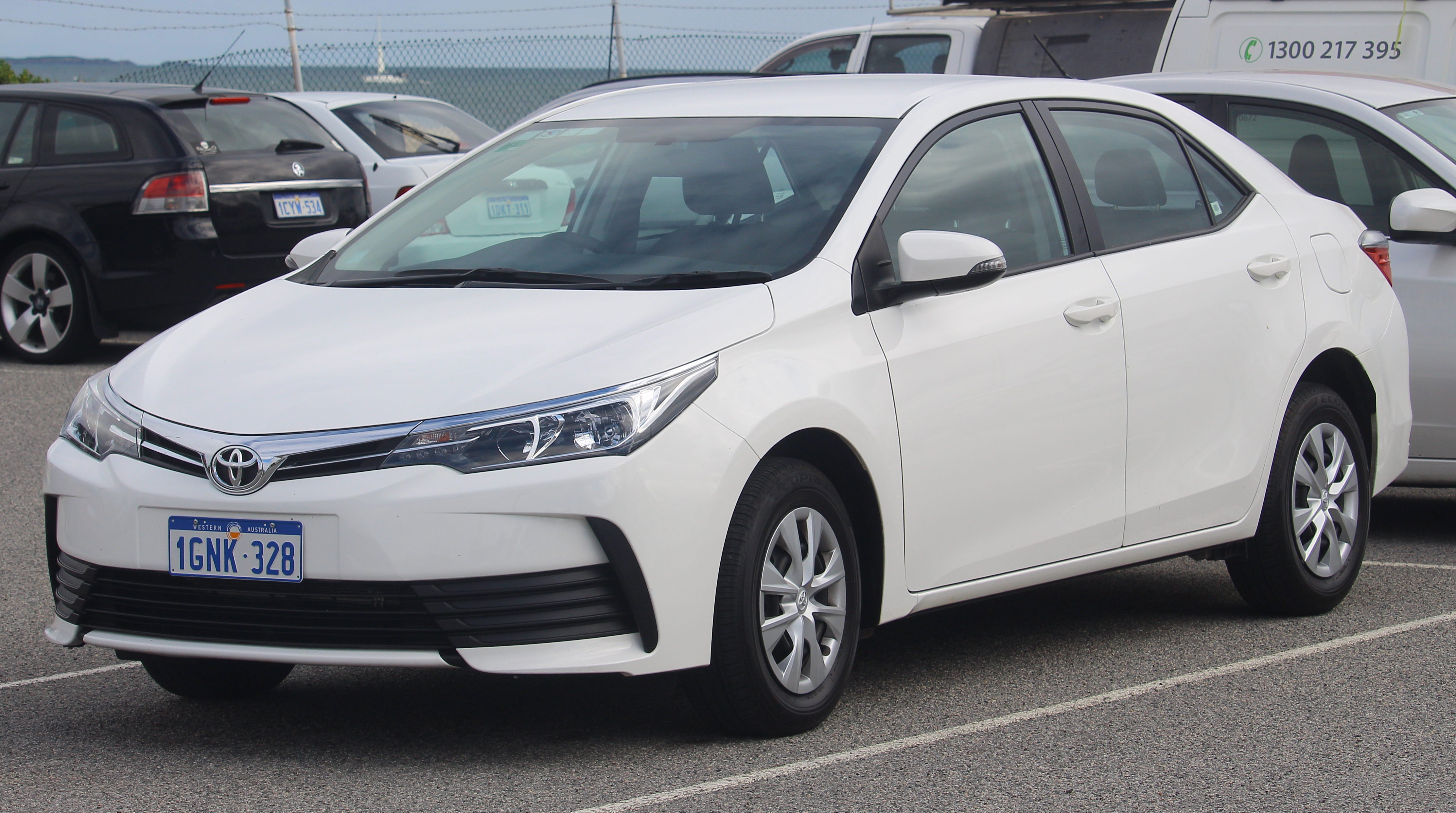 2018 Toyota Corolla (ZRE172R) Ascent sedan. Photographed in Fremantle, Western Australia, Australia.